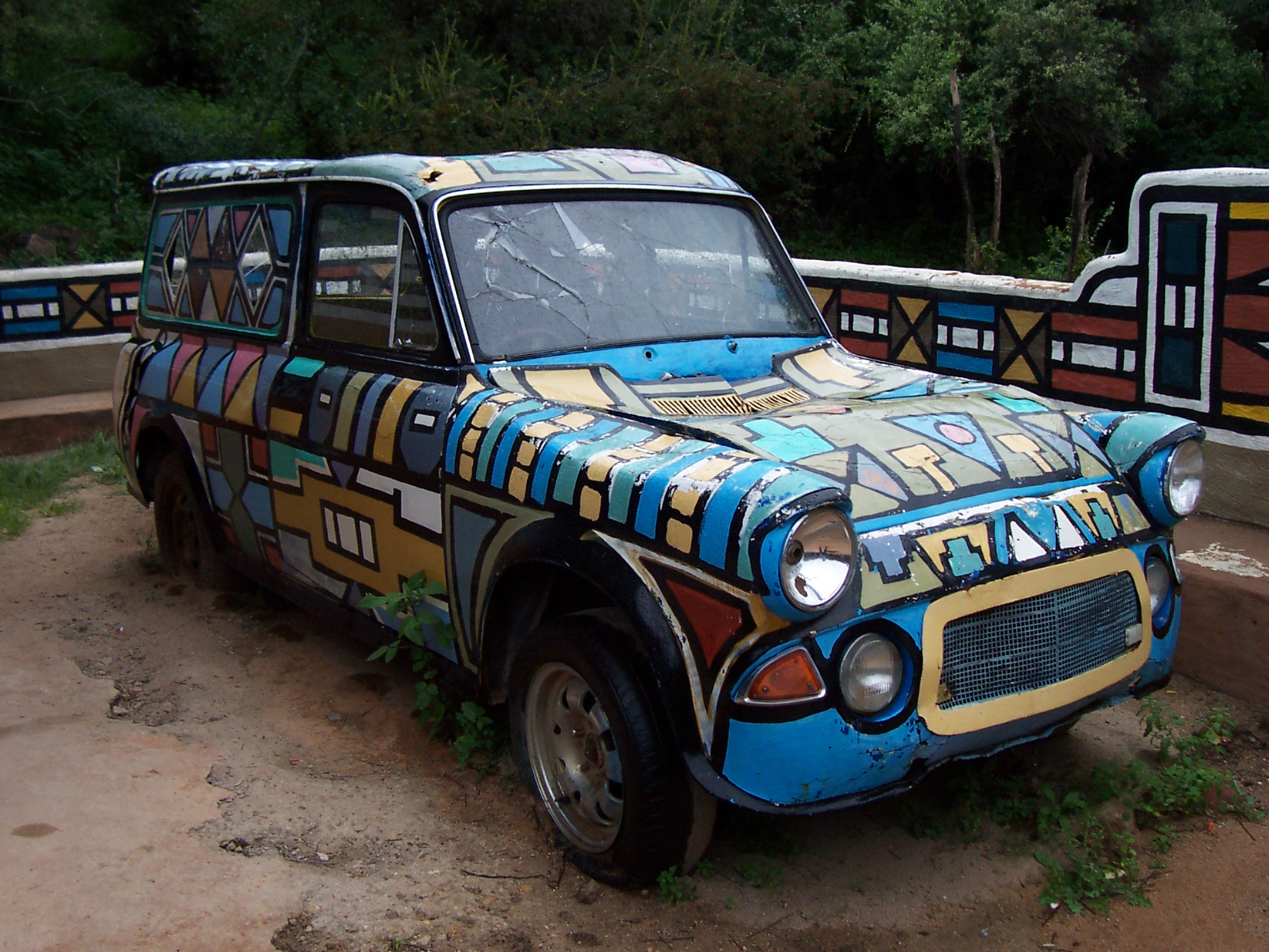 Colorful, but broken car, located at the entrace/exit of Lesedi Cultural Village in South Africa.